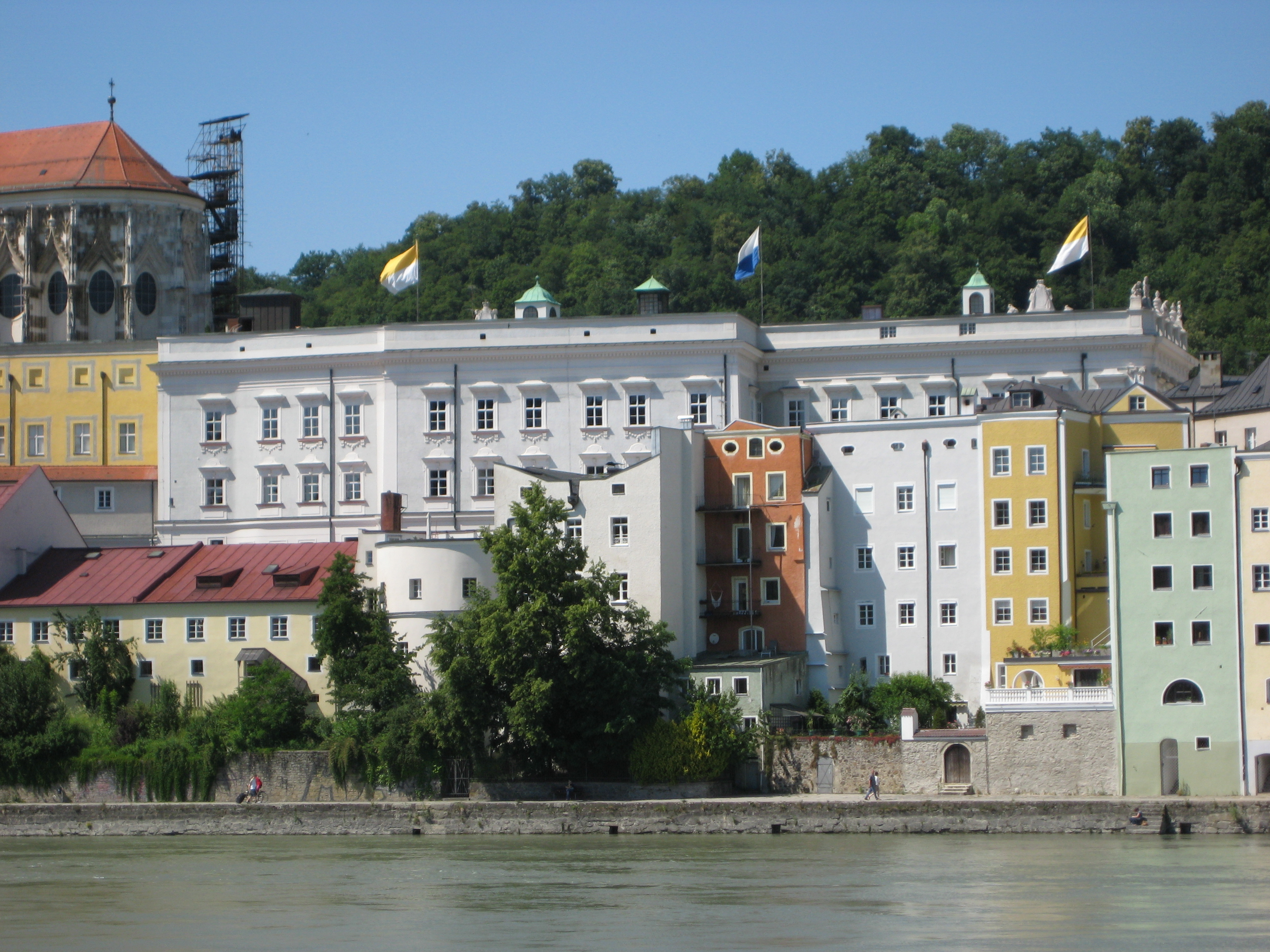 Neue Residenz, Passau